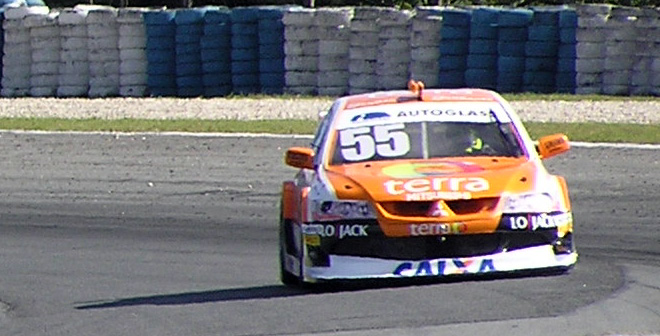 Stock Car Brasil: Christian Fittipaldi with Mitsubishi Lancer